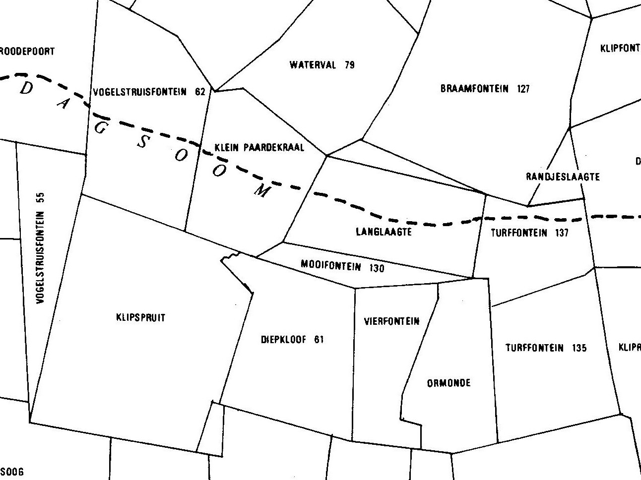 It is a cut of the already uploaded Johannesburg dagsoom.jpg.